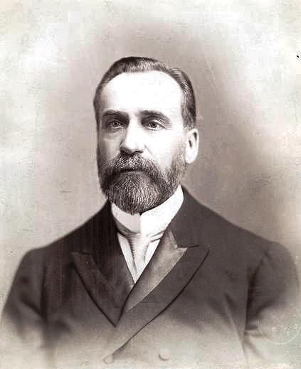 Sir Hormidas Laporte, PC (7 November 1850 – 20 February 1934) was a Montreal businessman and financier. He served as Mayor of Montreal from 1904 to 1906.